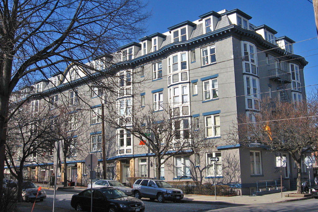 Apartment building in former brewery at the corner of Dove and Jay Streets in Albany, NY